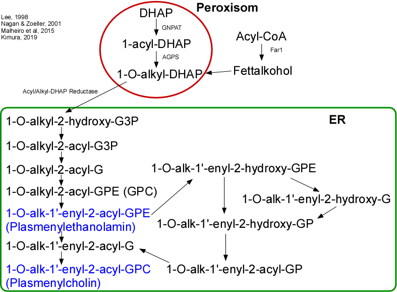 Synthesis of Plasmalogens (german)